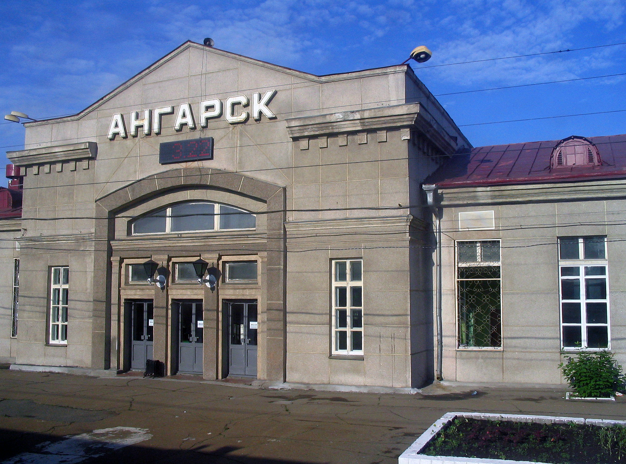 Picture of Angarsk station on trans-Siberian railway in Angarsk, Russia. Taken by me 7/06, released into public domain